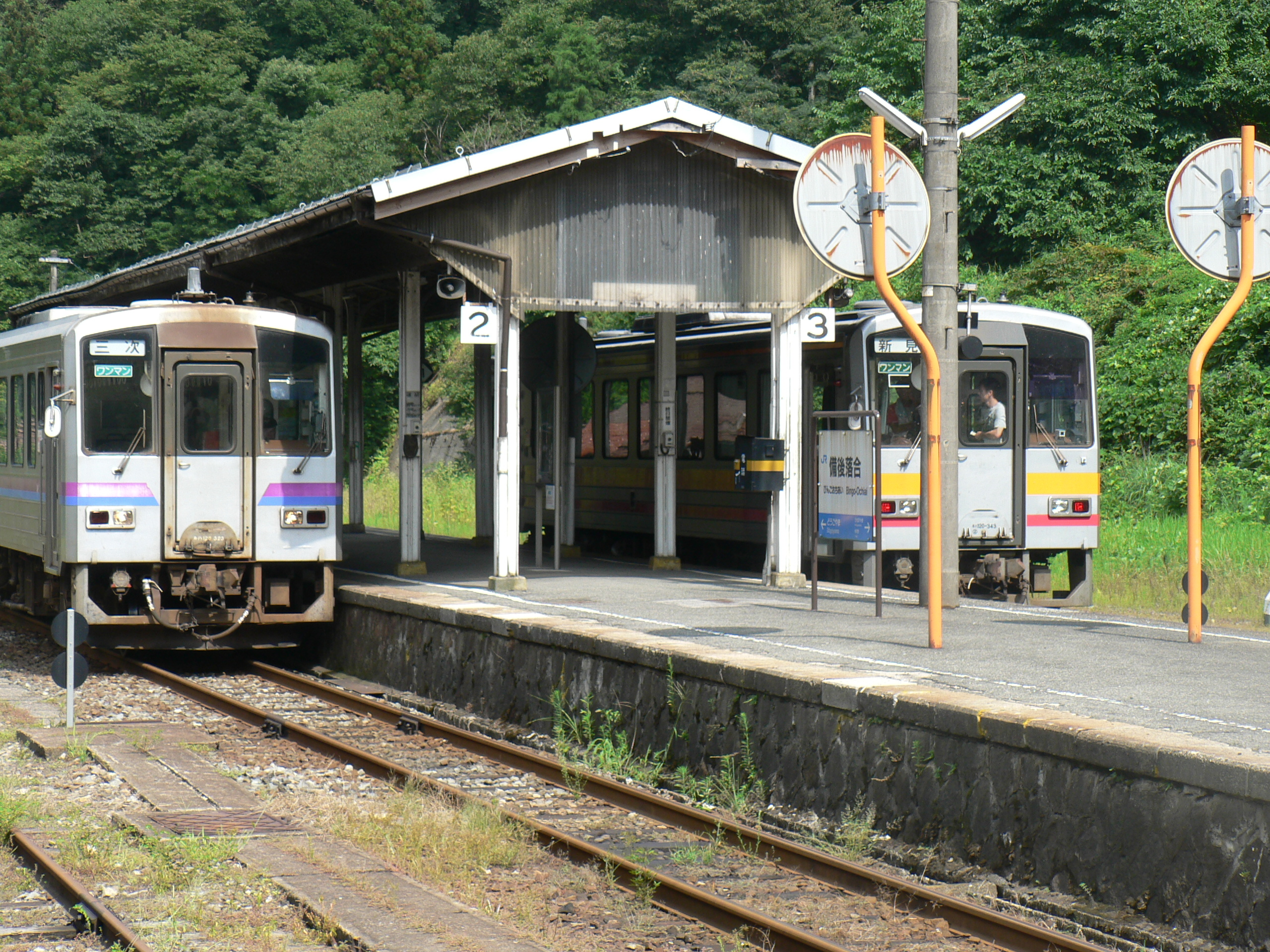 Bingo-Ochiai Station, Hiroshima Prefecture, Japan